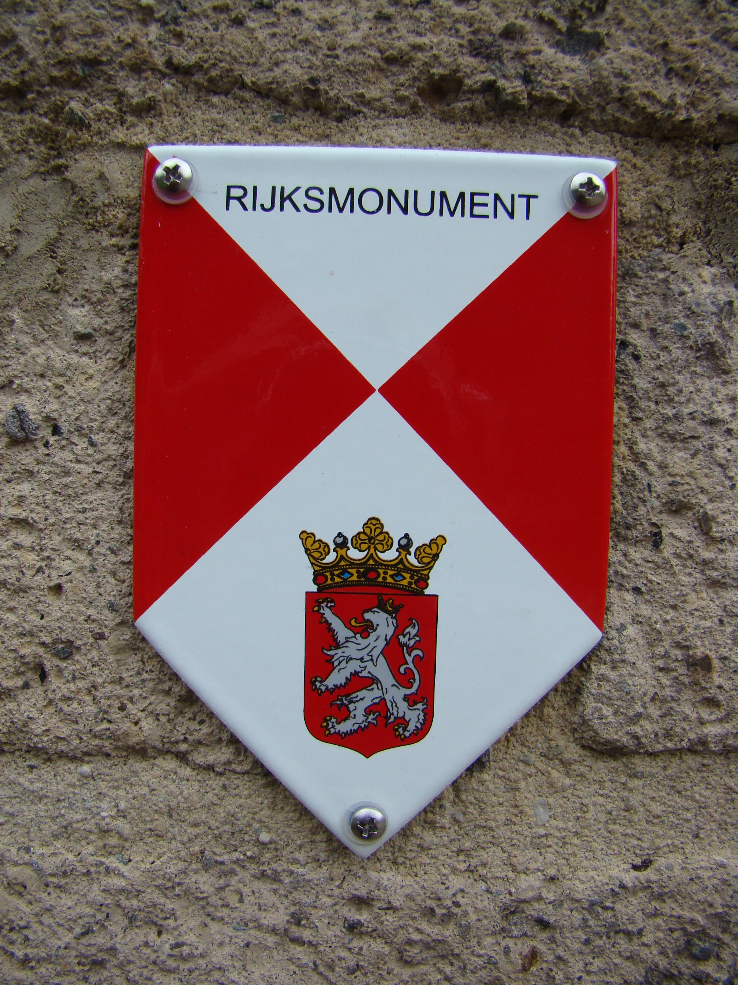 Impressions of Zelhem Netherlands